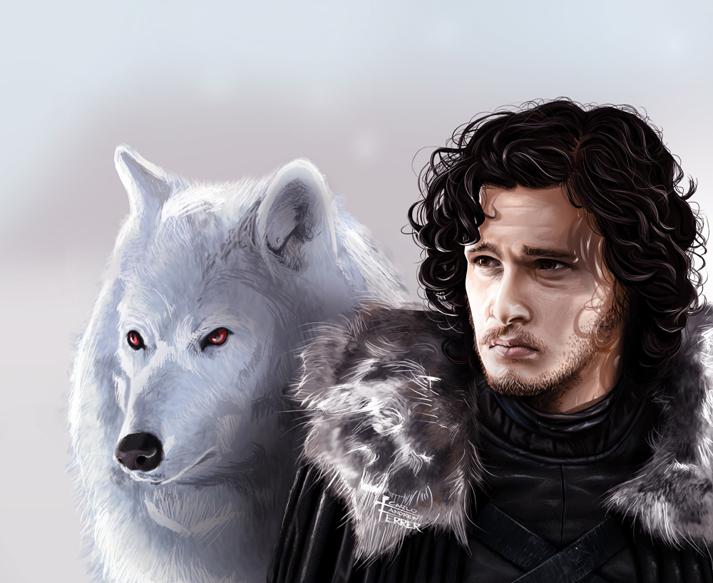 Jon Snow and Ghost